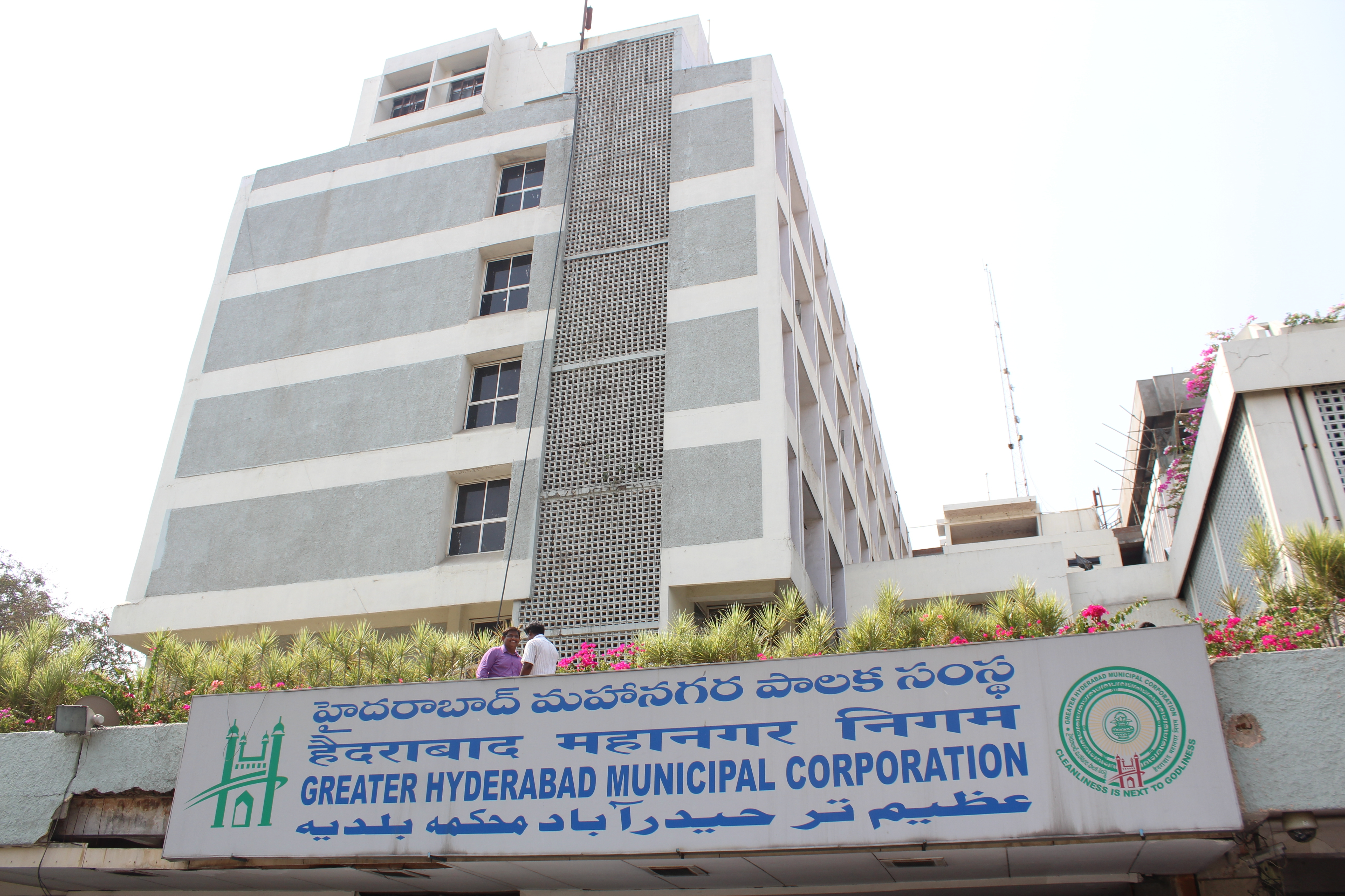 GHMC Head Office, Himayat Nagar